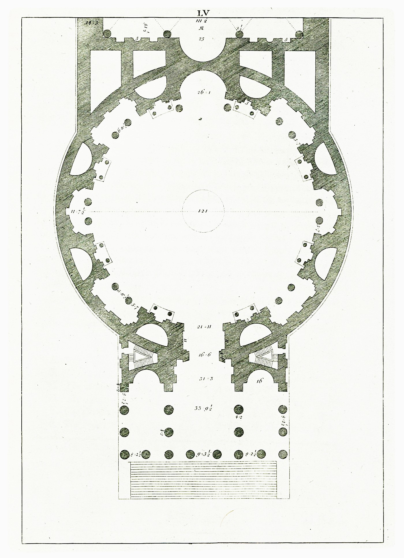 Plan of the Pantheon, from Giacomo Leoni's book Palladio, which was - among others - also used by Thomas Jefferson